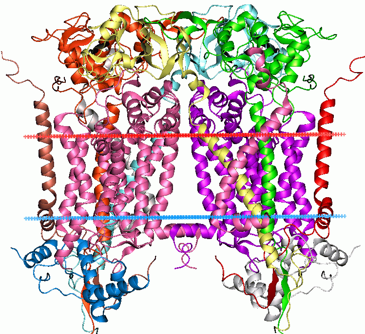 cytochrome bc1 complex (complex III). Protein image from OPM database